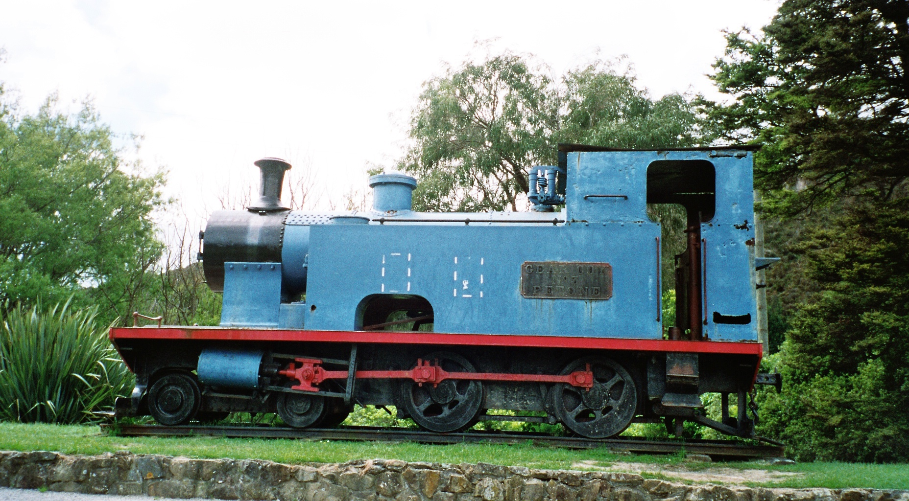 steam locomotive Barclay 1335, silver stream railway, new zealand